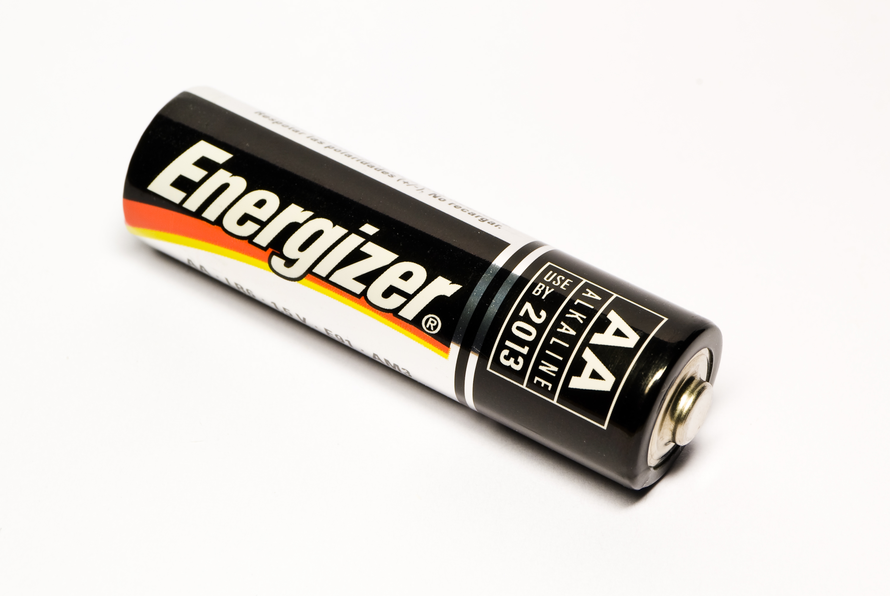 Image of a single Energizer AA Battery Height: 50 mm (1.96 ″); Diameter: 14 mm (0.55 ″) dimensions QS:P2048,50U174789;P2386,14U174789